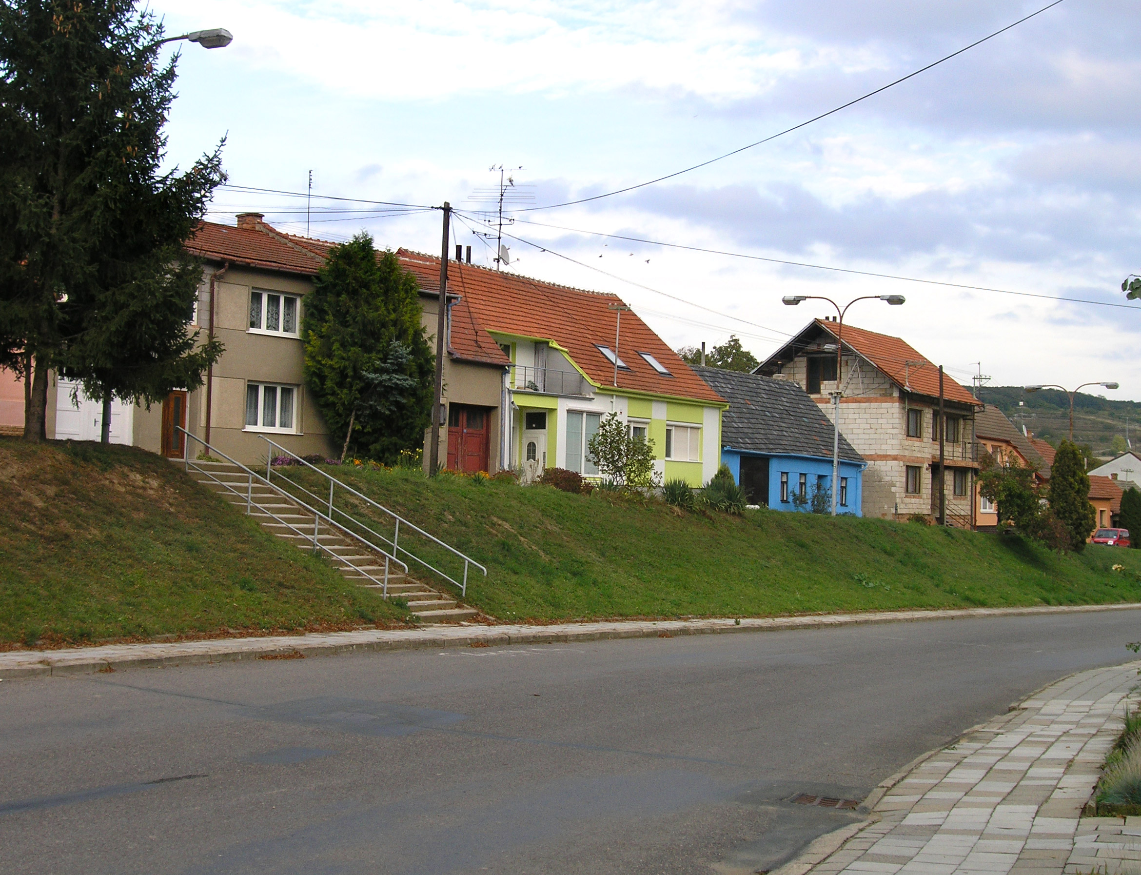 Main street in Němčičky village, Czech Republic